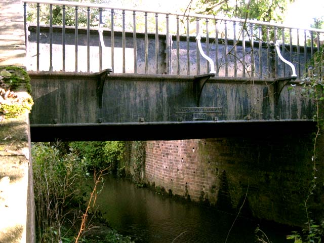 Yarningale aqueduct spans Kingswood Brook